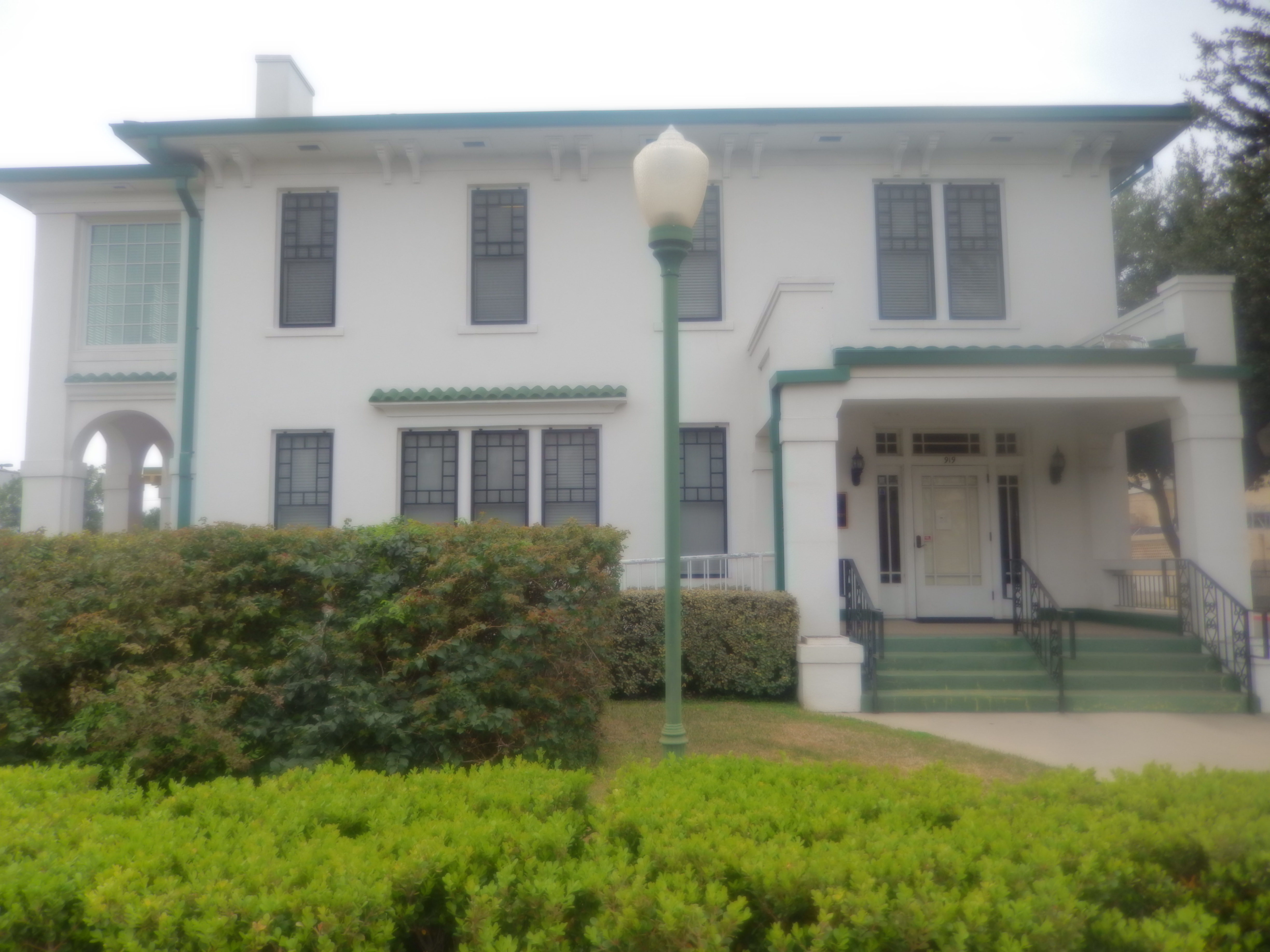 I took photo of J. C. Martin, Sr., restored home in Laredo, TX, with Nikon camera.